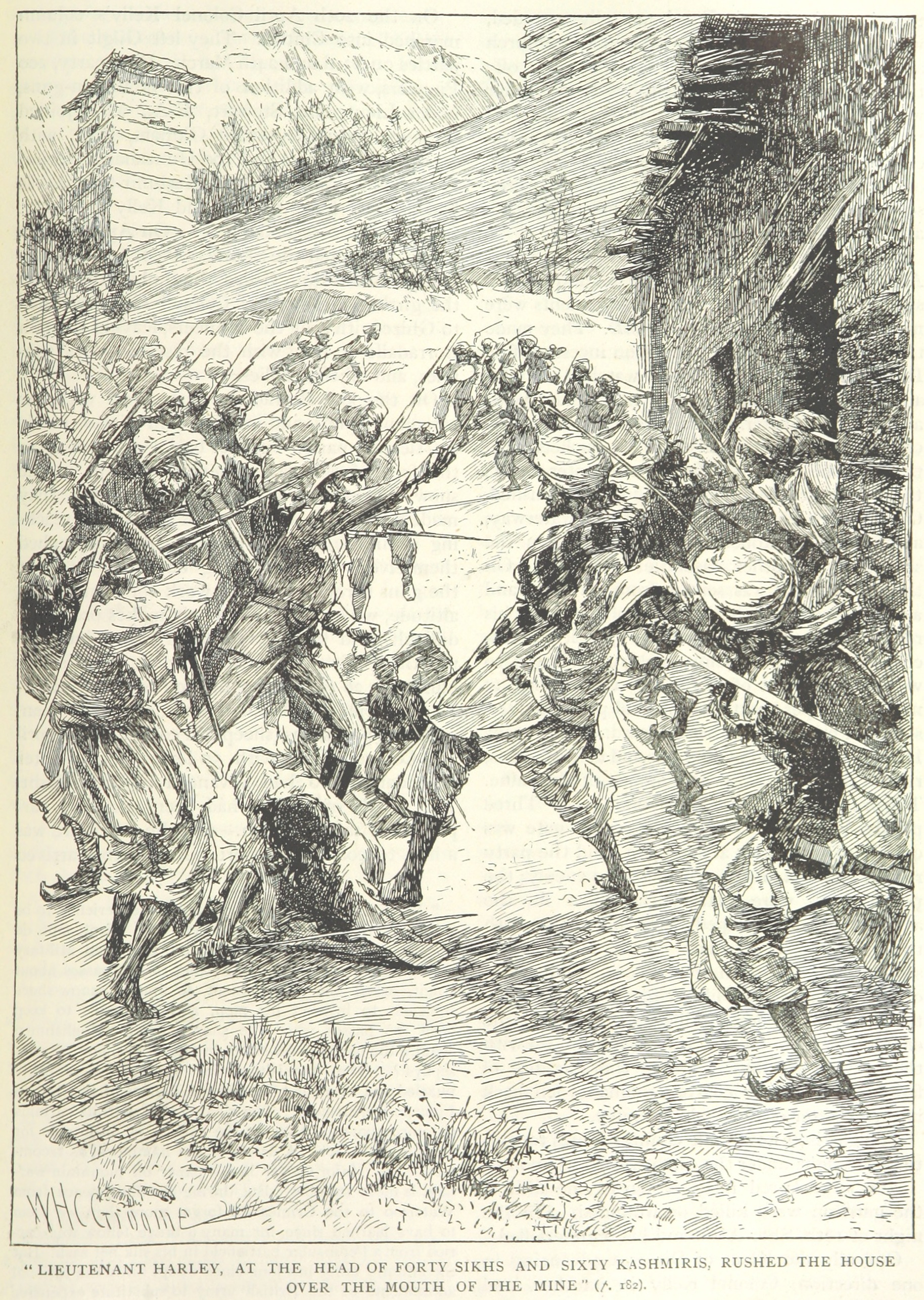 British troops storm the mines being dug under their fort. Part of the Chitral Expedition.